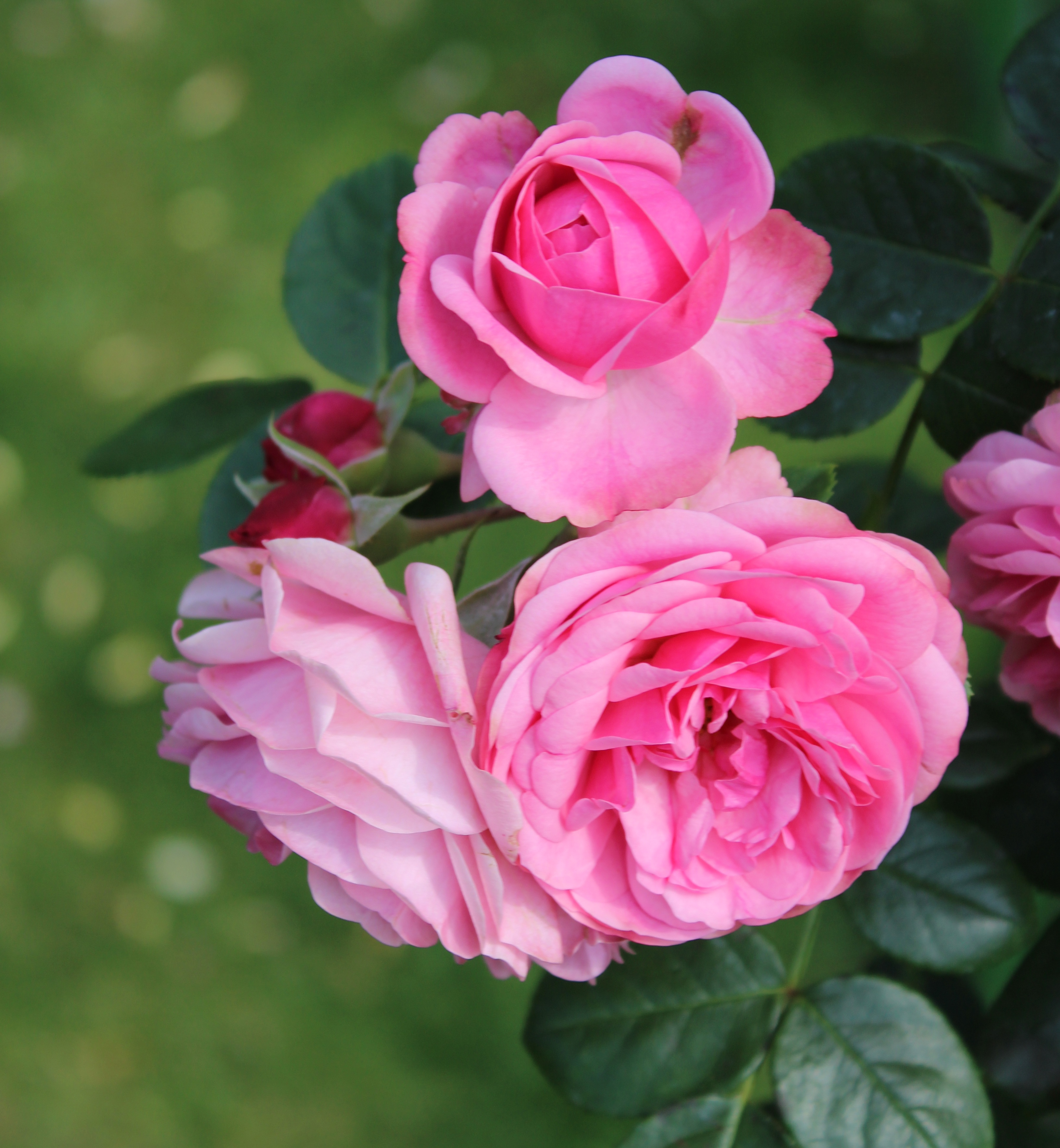 Rosa 'Leonardo da Vinci' in the Volksgarten in Vienna. Identified by sign.